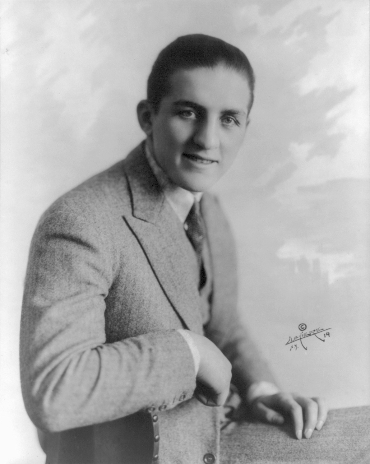 Georges Carpentier, c1920.